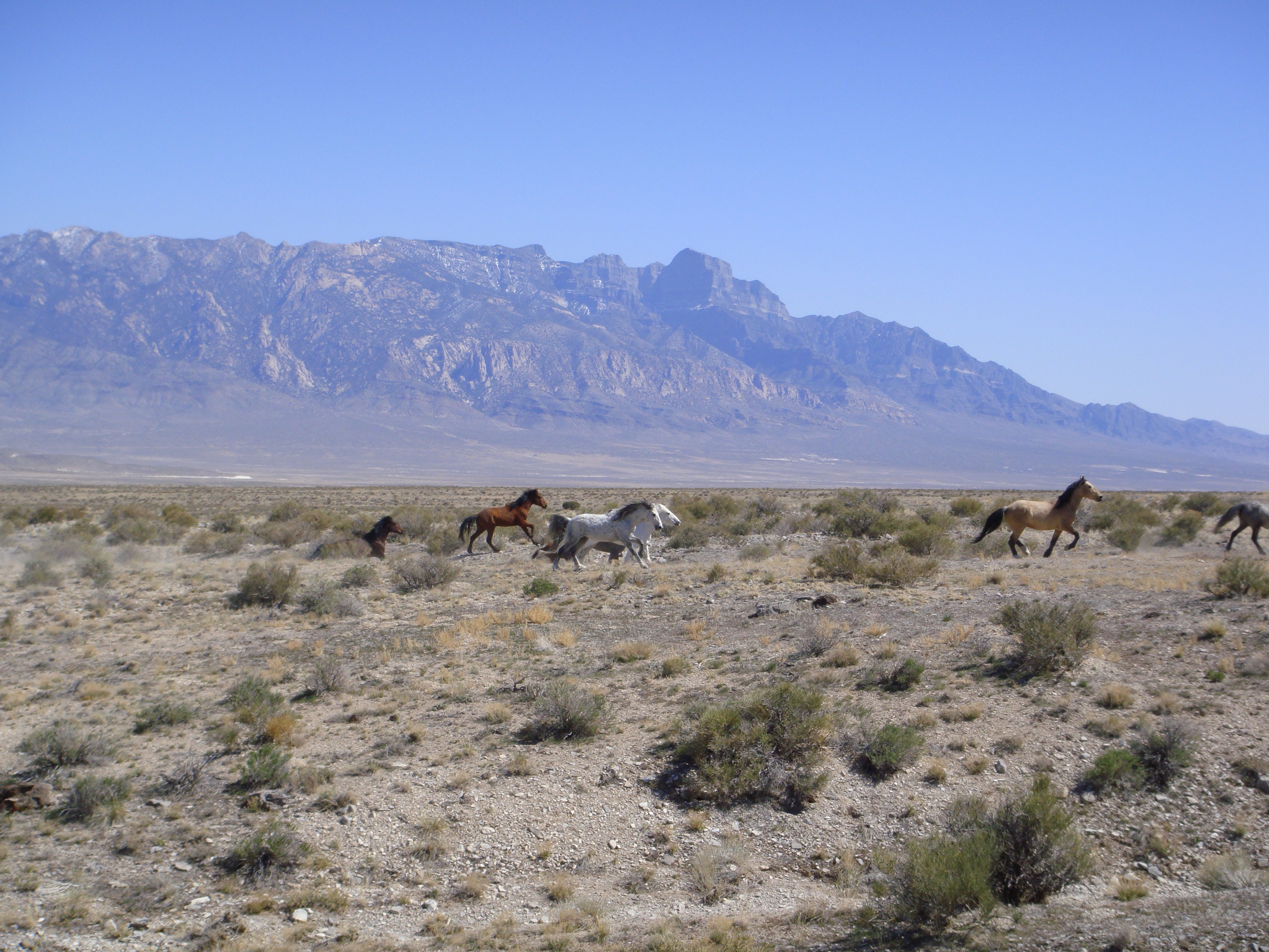 Wild horses run through Tule Valley, Utah. Notch Peak and the House Range in background.